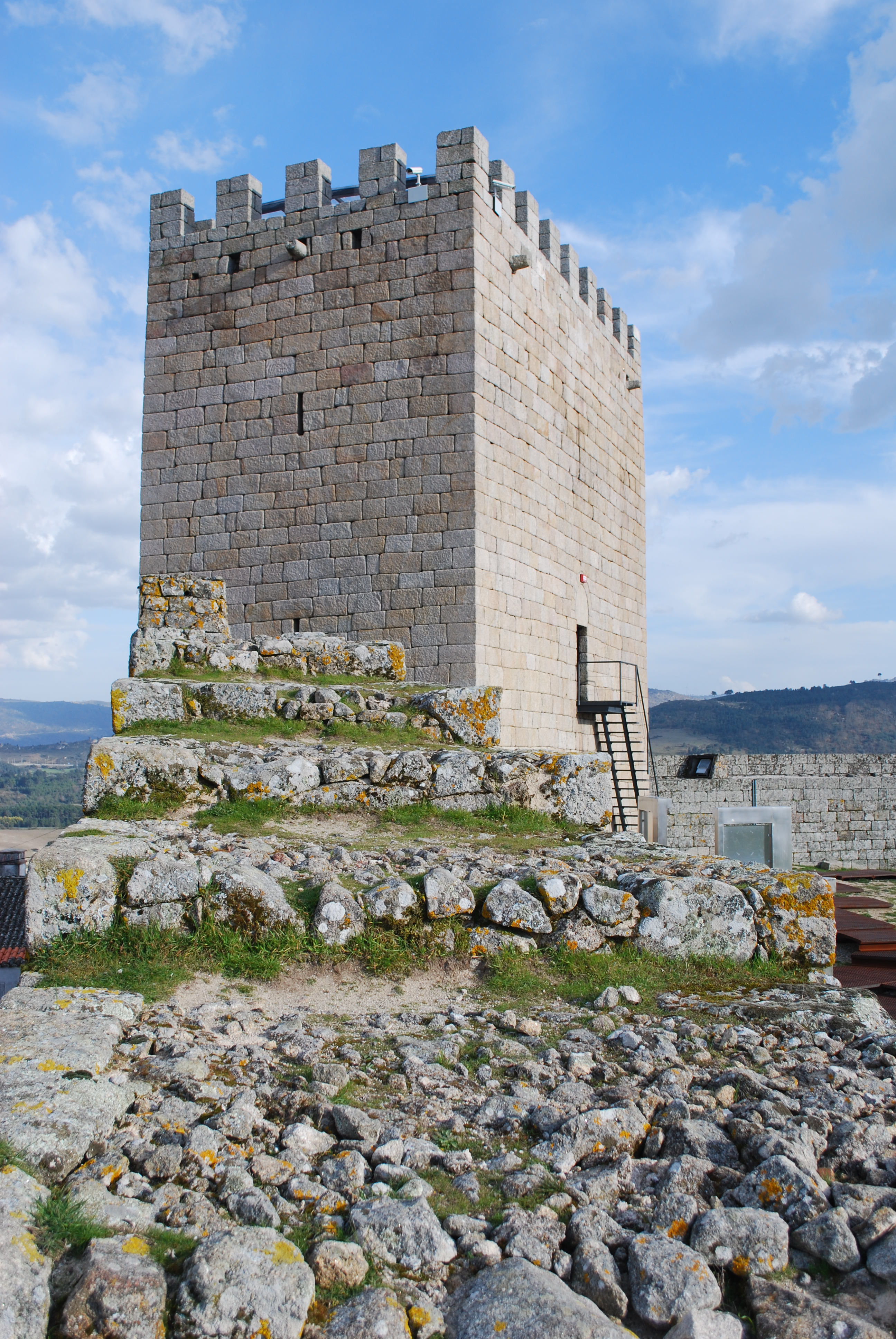 This file was uploaded for Wiki Loves Monuments in Portugal with the unique identifier 70710.